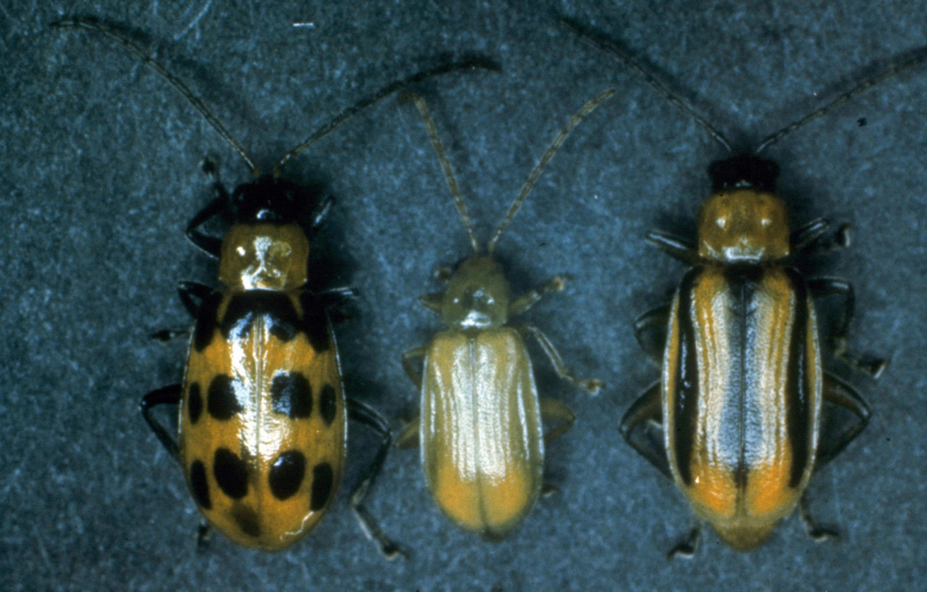 Side-by-side comparison of adult specimens of the southern corn rootworm (Diabrotica undecimpunctata howardi), northern corn rootworm (D. barberi) and western corn rootworm (D. virgifera virgifera)